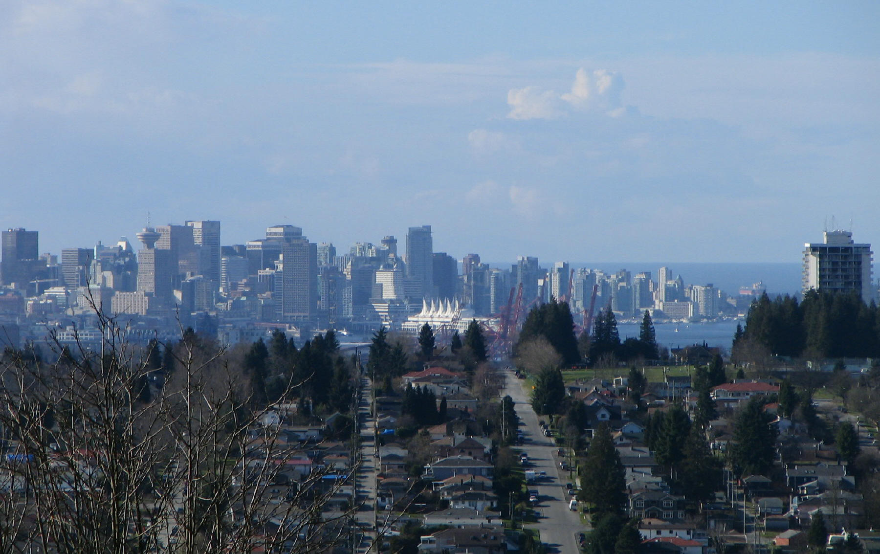 The Heights as seen from Capitol Hill, with Downtown Vancouver in the distance This image was created by me, Flying Penguin of Pacific Spirit Photography ( of Burnaby, BC, Canada. The Heights as seen from Capitol Hill, with Downtown Vancouver in the distance